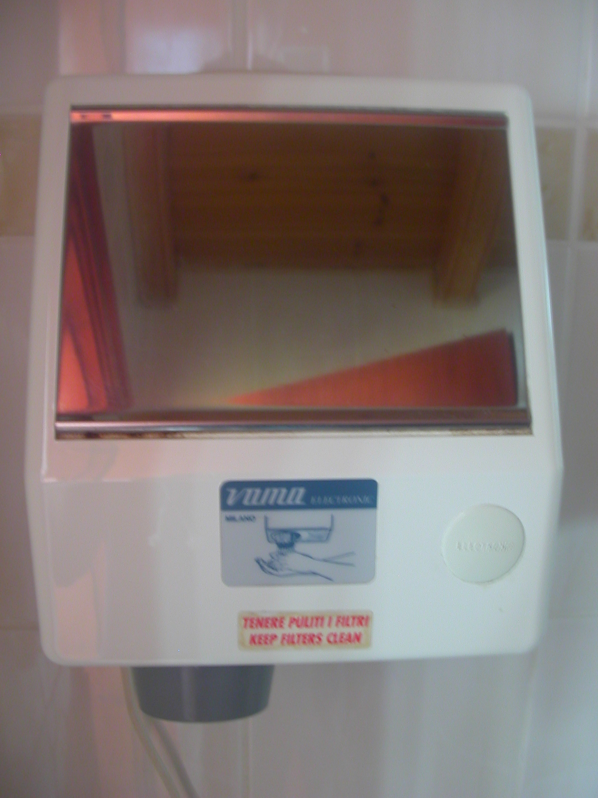 Push-button hand dryer in the toilet of the Golden Fox restaurant, Lakones, Corfu. Photographed on 28th April 2007.